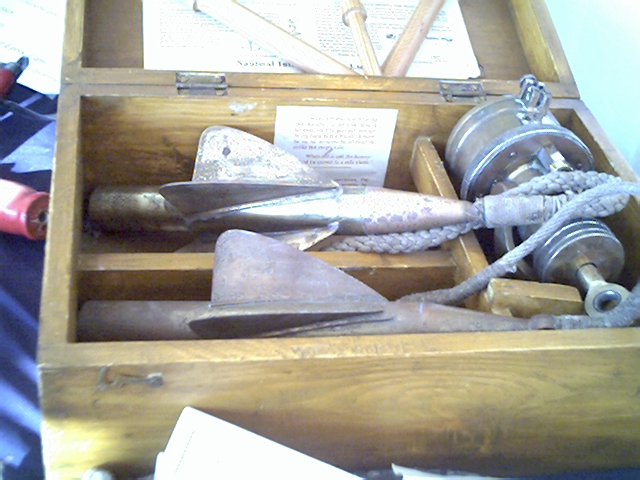 Loch à hélice. Propellor log by Thos Walker's & Son Ltd. Made in England. "Cherub III" Ship-Log